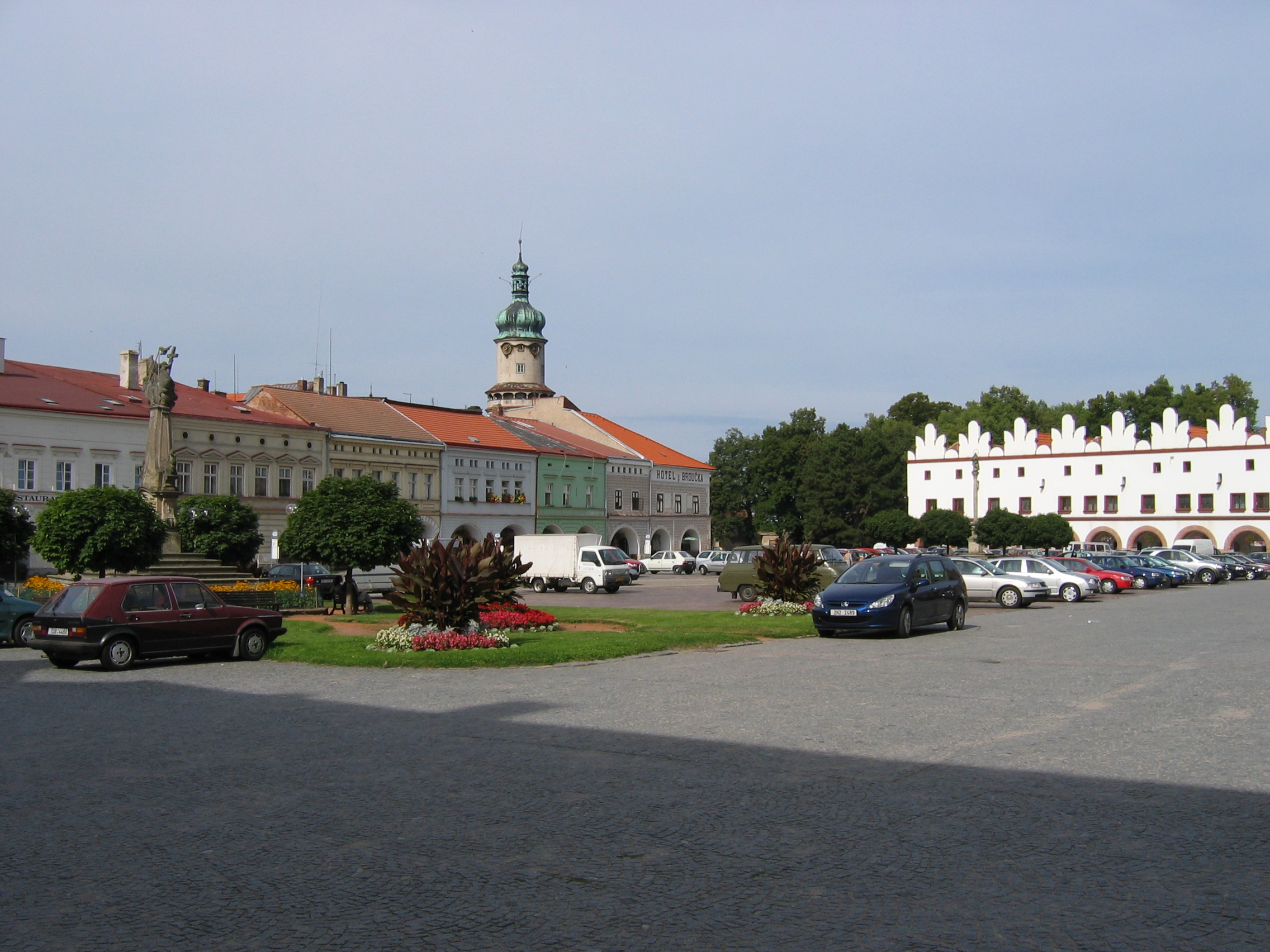 Nové Město nad Metují - marketplace